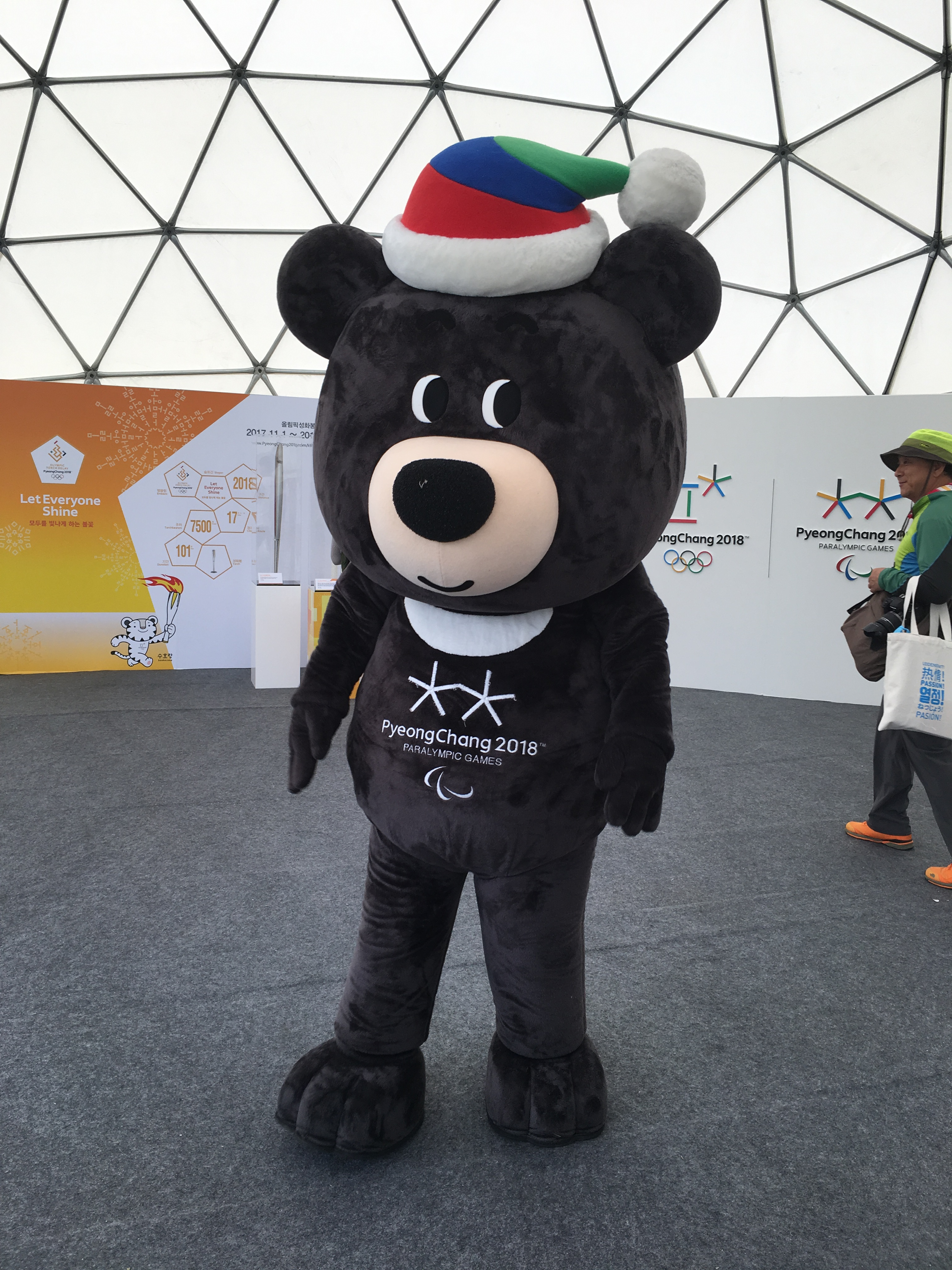 Bandabi, one of the mascots for Olympic and Paraolympic 2018